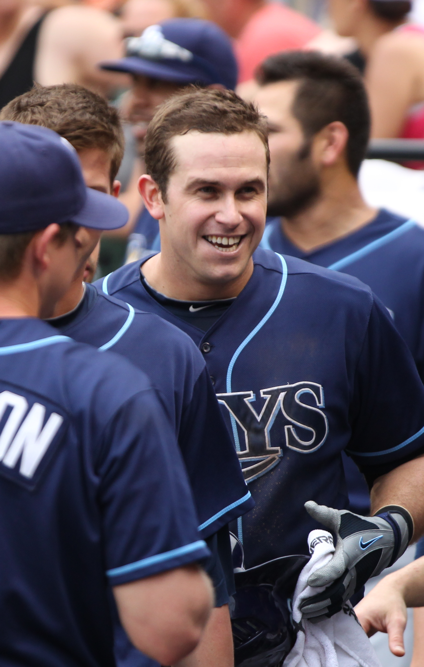 Tampa Bay Rays at Baltimore Orioles June 12, 2011.